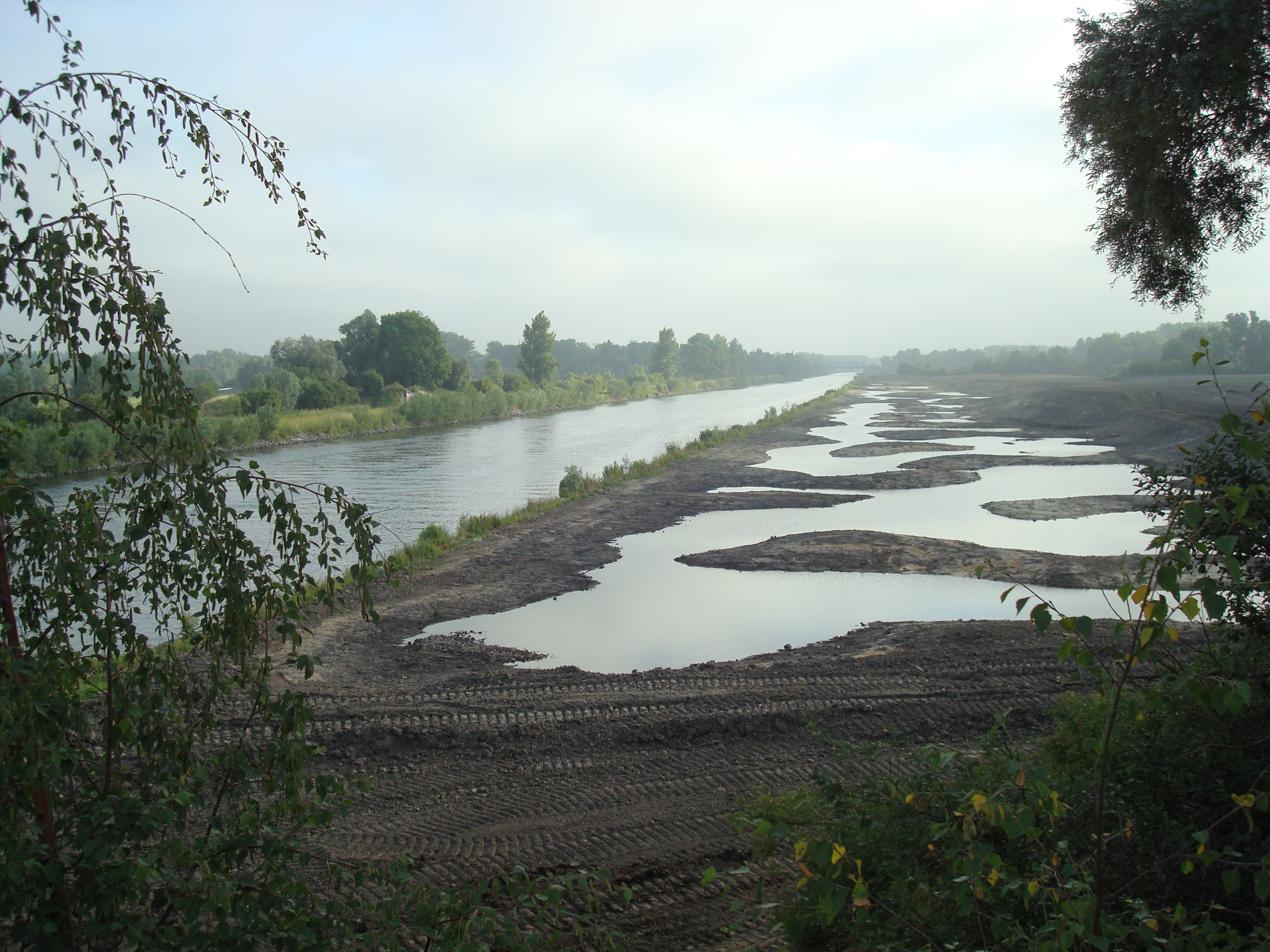 Banks with subnatural lagoons (Constructed wetland) were created (2010) by VNF (Waterways of France), as a countervailable to set wide gauge of the Scheldt in the north of France, on the edge of the river. The lagoon is divided into meanders in order to extend the ecotone soil-water and purifying water of the Scheldt. It is powered by the Scheldt itself passively or more "active" during the passage of boats (which produces a wave with pressure and depression).